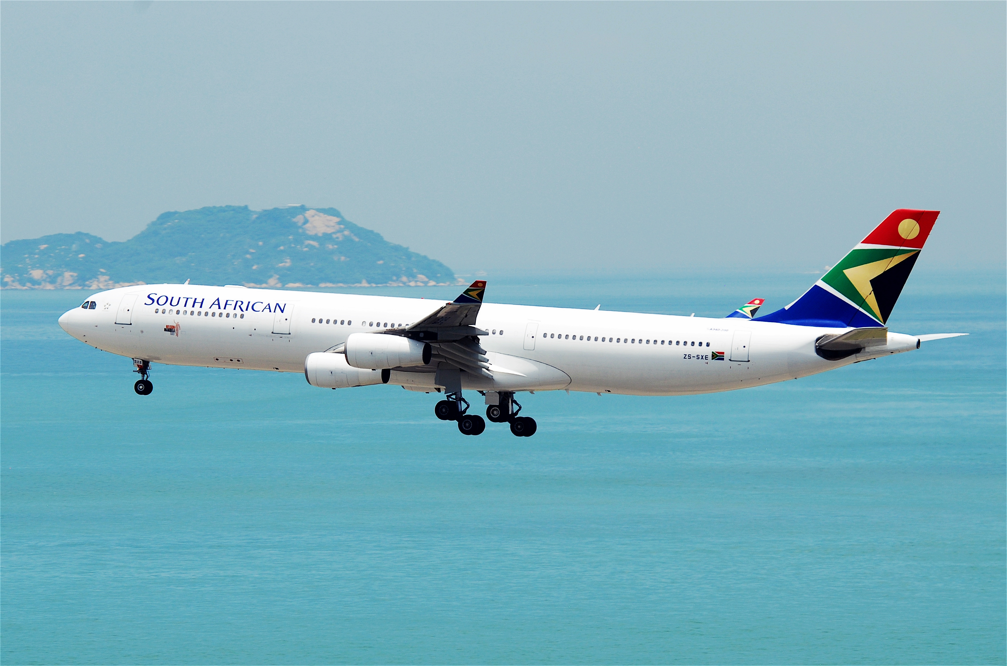 South African Airways Airbus A340-313E; ZS-SXE@HKG;31.07.2011/614iw